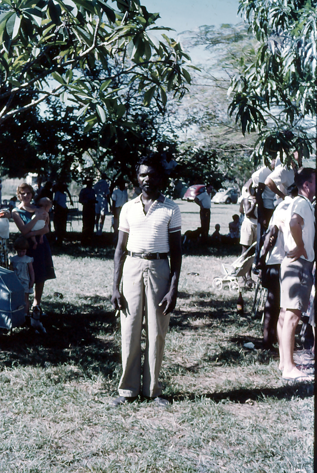 Robert Tudawali played the starring role of Marbuk in the Charles Chauvel movie Jedda and is pictured here at his home, Bagot Reserve in Darwin.